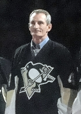 Dave Burrows was one of more than 50 former Penguins honored in a special pregame ceremony before the final regular season game at Mellon Arena, April 8, 2010.